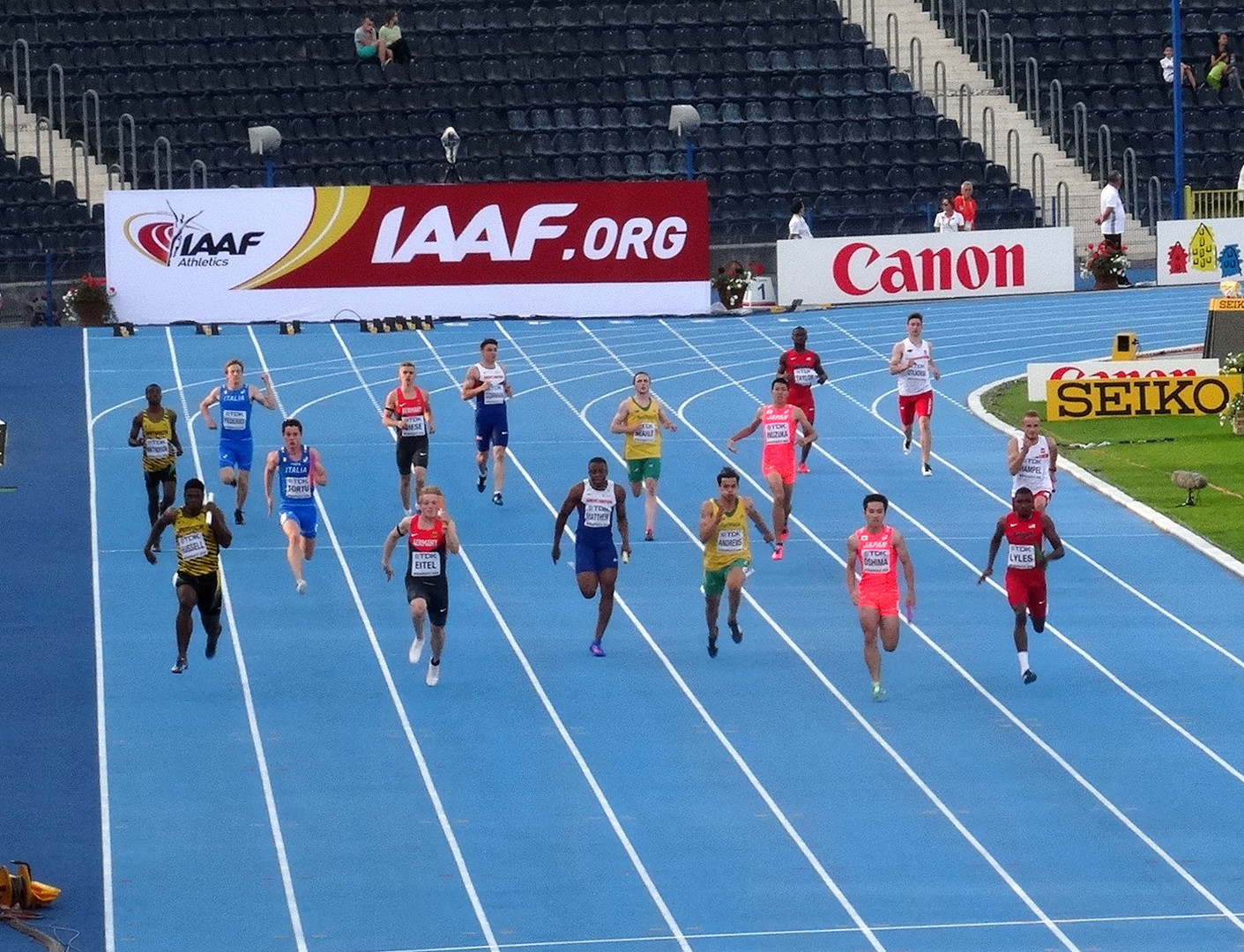 2016 IAAF World U20 Championships in Bydgoszcz, 4x100m relay men final